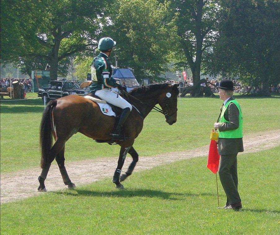 Not something you want to see - red flag because a horse just ahead had an accident. A few jumps ahead the vets were trying to save a horse which broke a flag (they are wooden) and cut an artery. I'm sorry to say the horse didn't survive. This rider was held up for twenty minutes or so. This is 42, Jonty Evans (IRL) on Cregwarrior. They placed 29th overall.